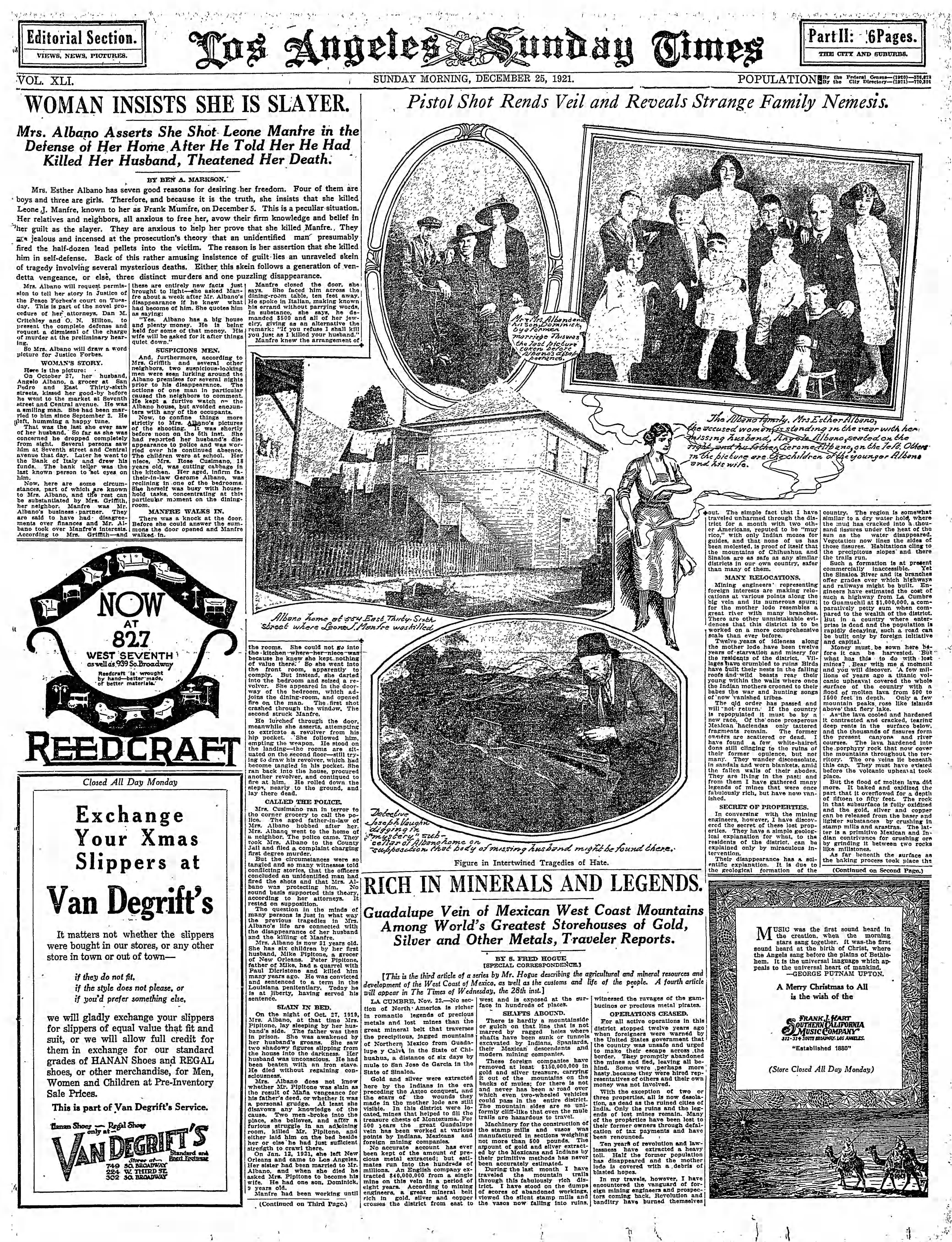 First part of article about the shooting of Leon Joseph Manfre by Esther Albano. She had previously been married to Mike Pepitone who was murdered in New Orleans in 1919; which was suspected of having been committed by the "Axeman of New Orleans".